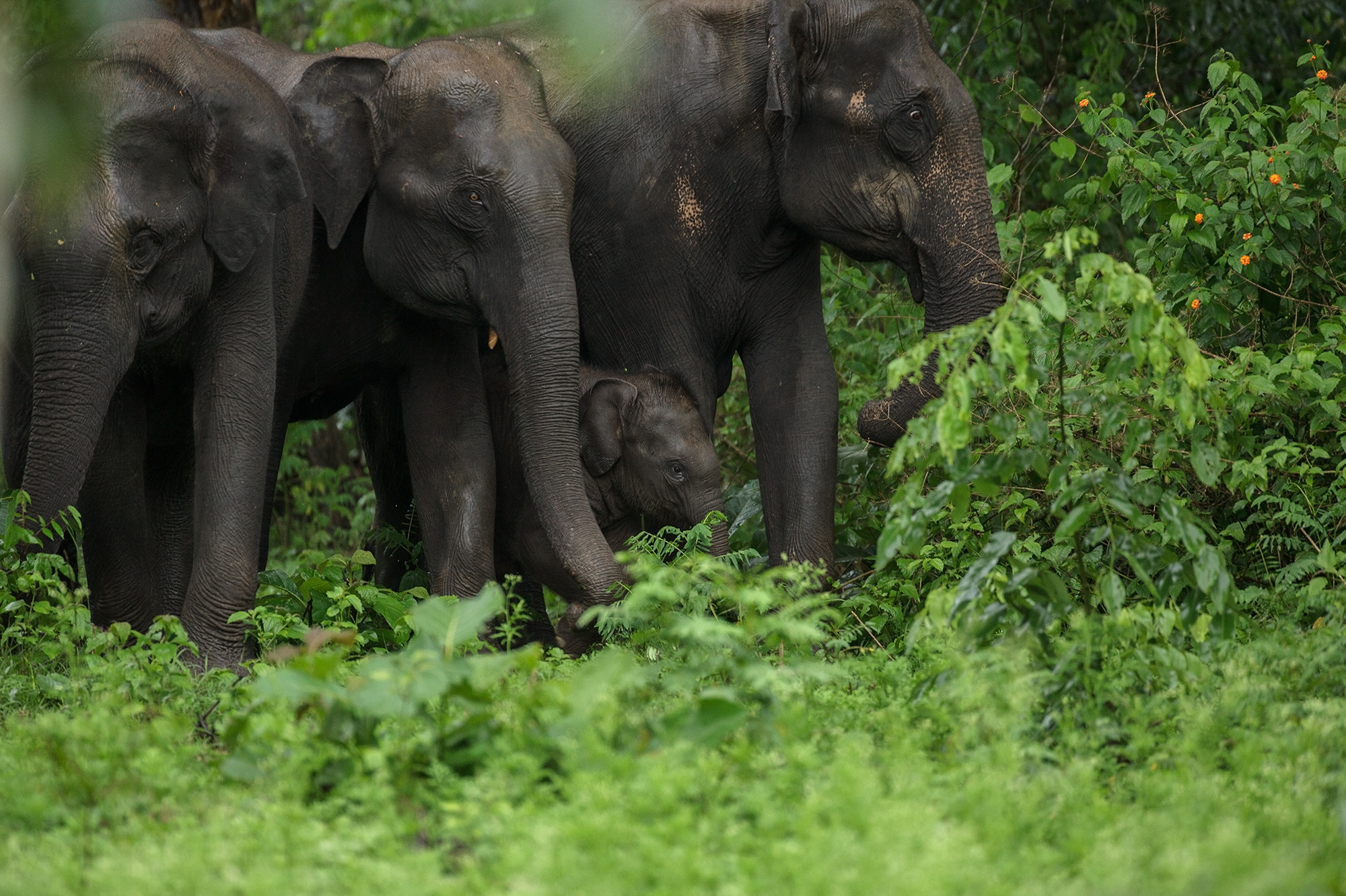 500px provided description: Calf is well protected by the mother and other female members. [#forest ,#animals ,#animal ,#india ,#wildlife ,#elephant ,#wilderness ,#karnataka ,#ka ,#animal photography ,#nature photography ,#wildlife photography ,#kabini ,#nature photograph ,#nature pics ,#Wildlife Pics ,#Wildlife Photograph ,#nature images ,#asiatic elephant ,#indian forest]